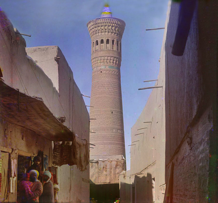 Street scene with vendors, minaret in background, Kalyan in Bukhara, Uzbekistan